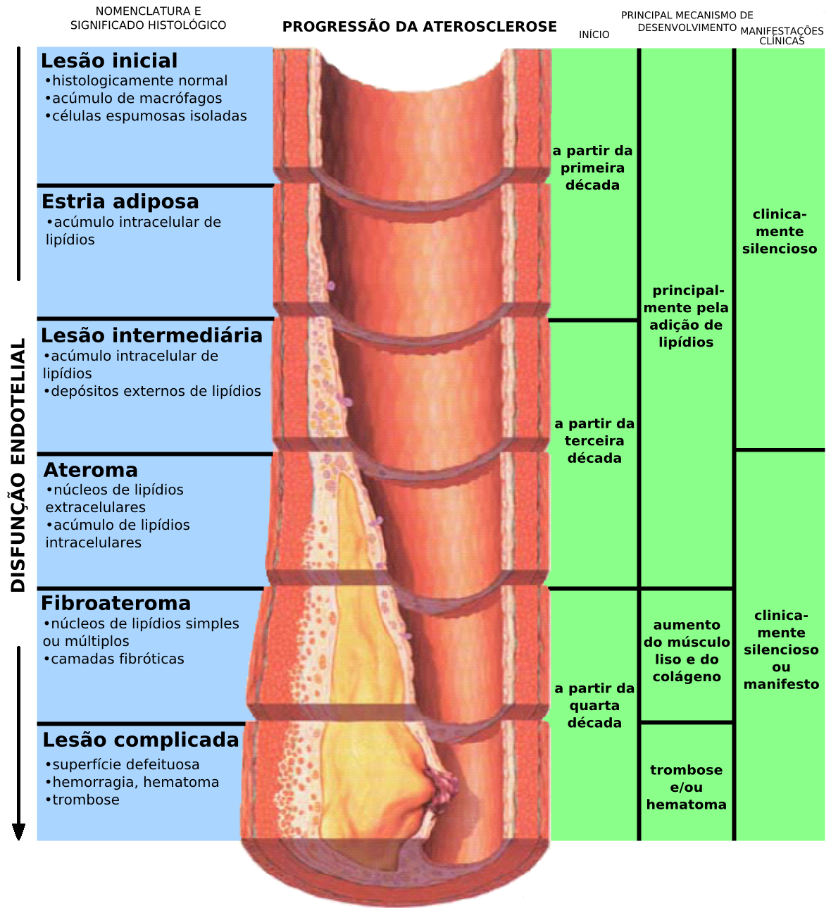 Stages of endothelial dysfunction in atherosclerosis.